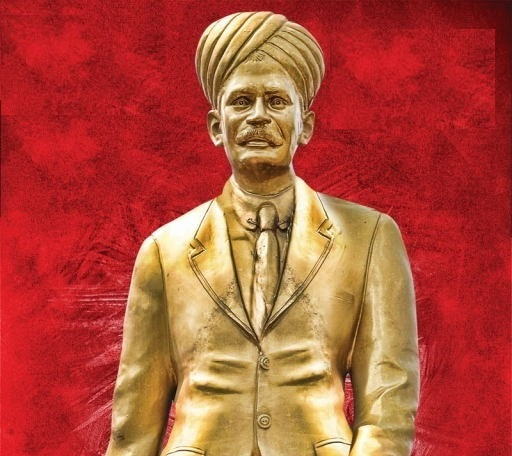 Raghupathi Venkaiah Naidu, known widely as the father of Telugu cinema, was an Indian artiste and film maker. Naidu was a pioneer in the production of silent Indian films and talkie.